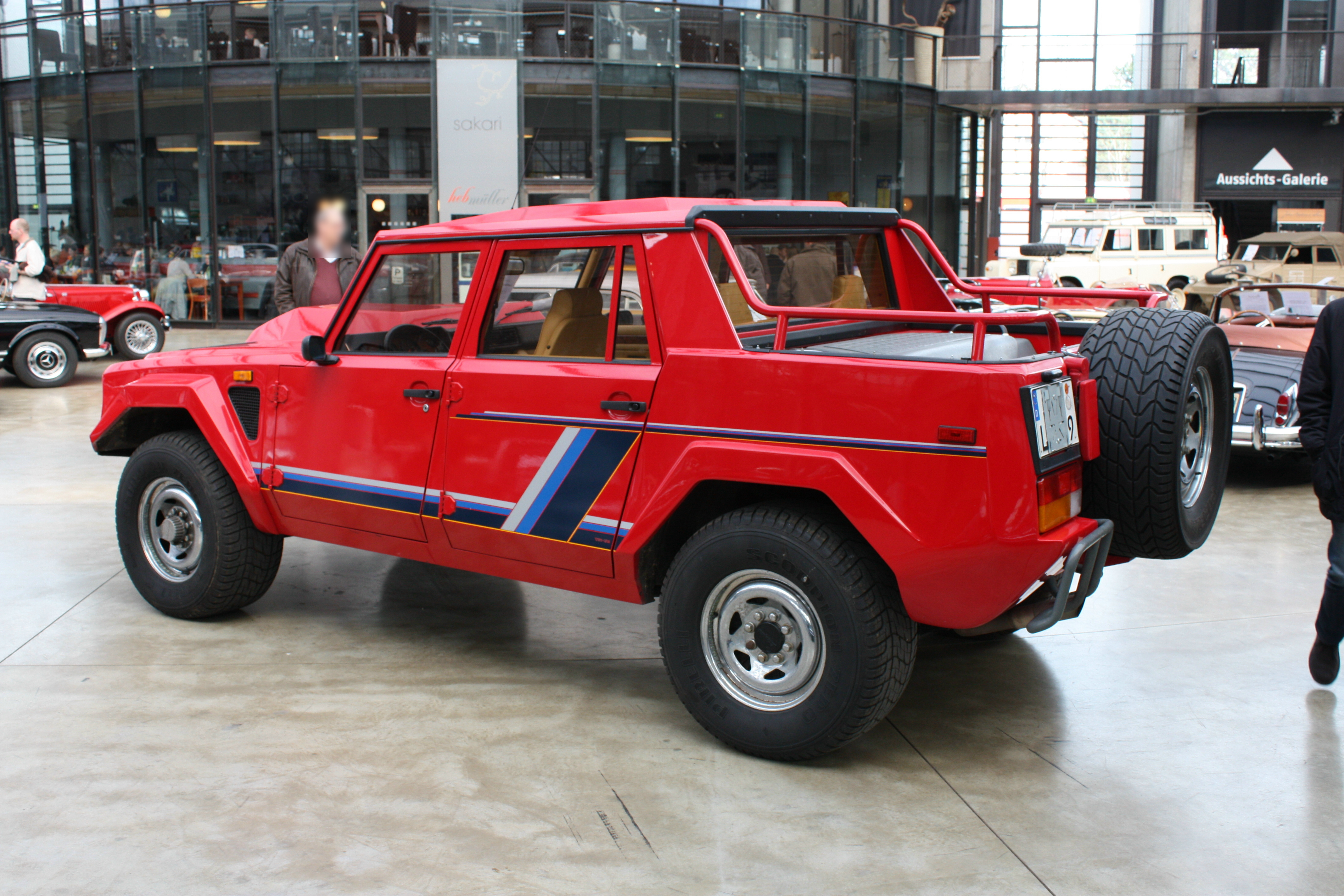 Lamborghini LM 002, 1988, seen at CLASSIC REMISE, Duesseldorf, Germany